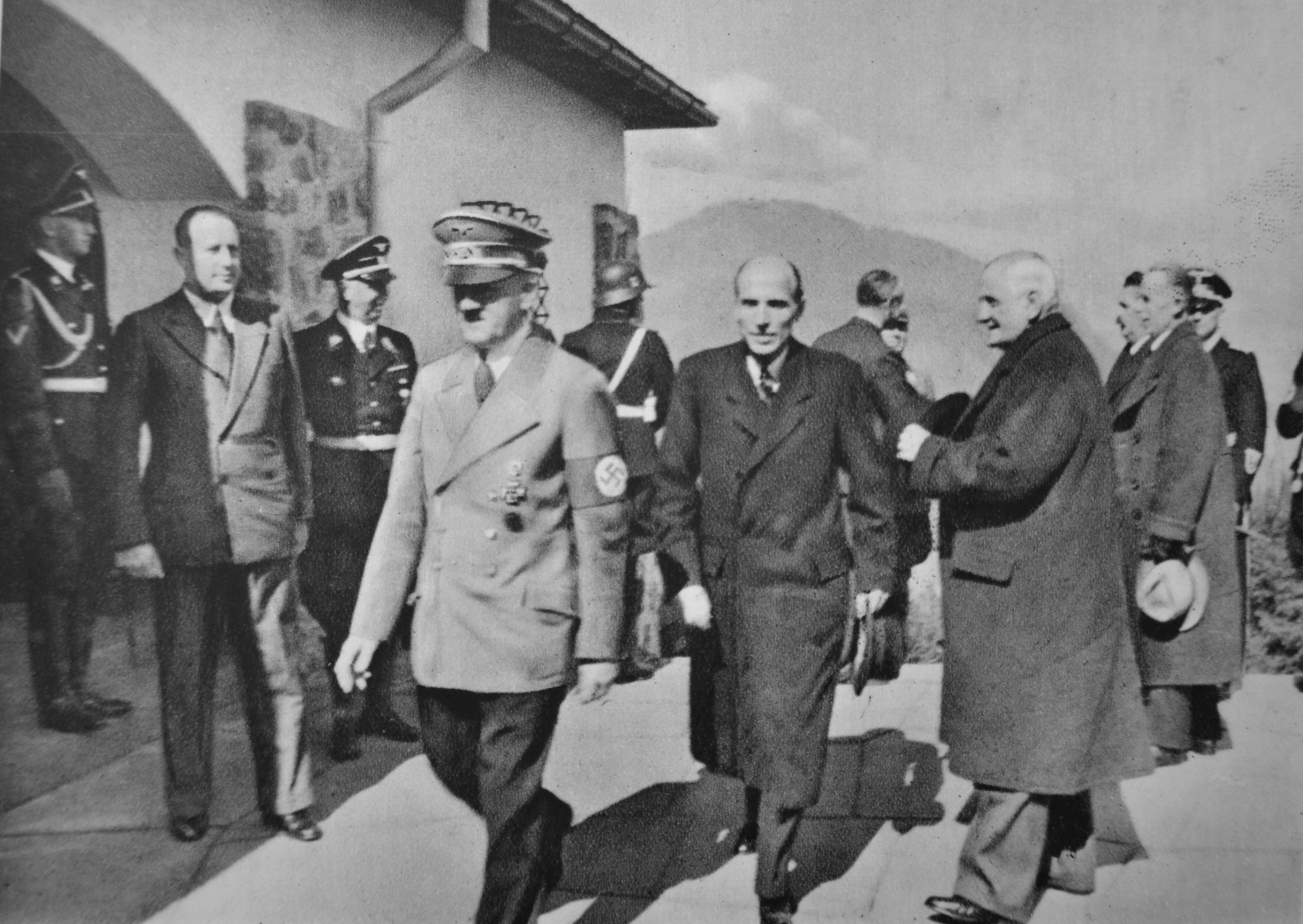 Foreign Minister of Hungary Kálmán Kánya and Prime Minister of Hungary Béla Imrédy on a visit to Hitler (1938)